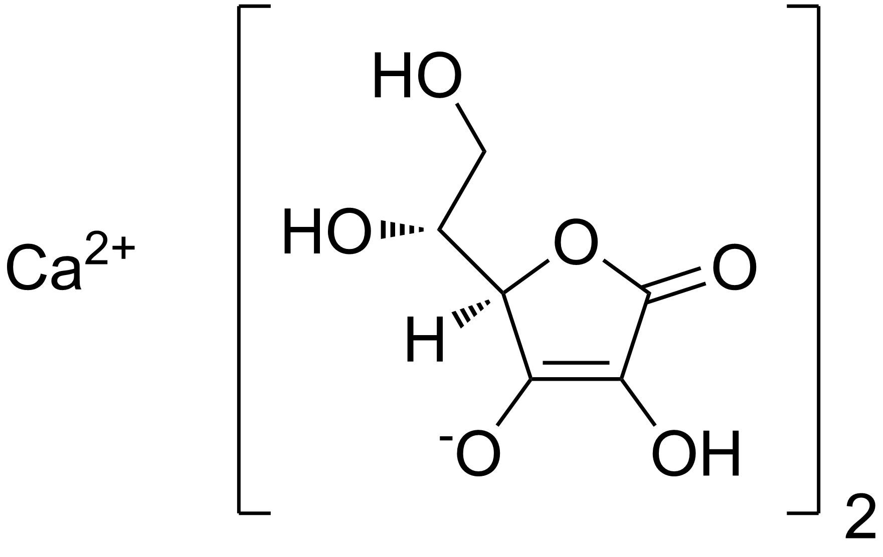 Chemical structure of calcium erythorbate (calcium isoascorbate)